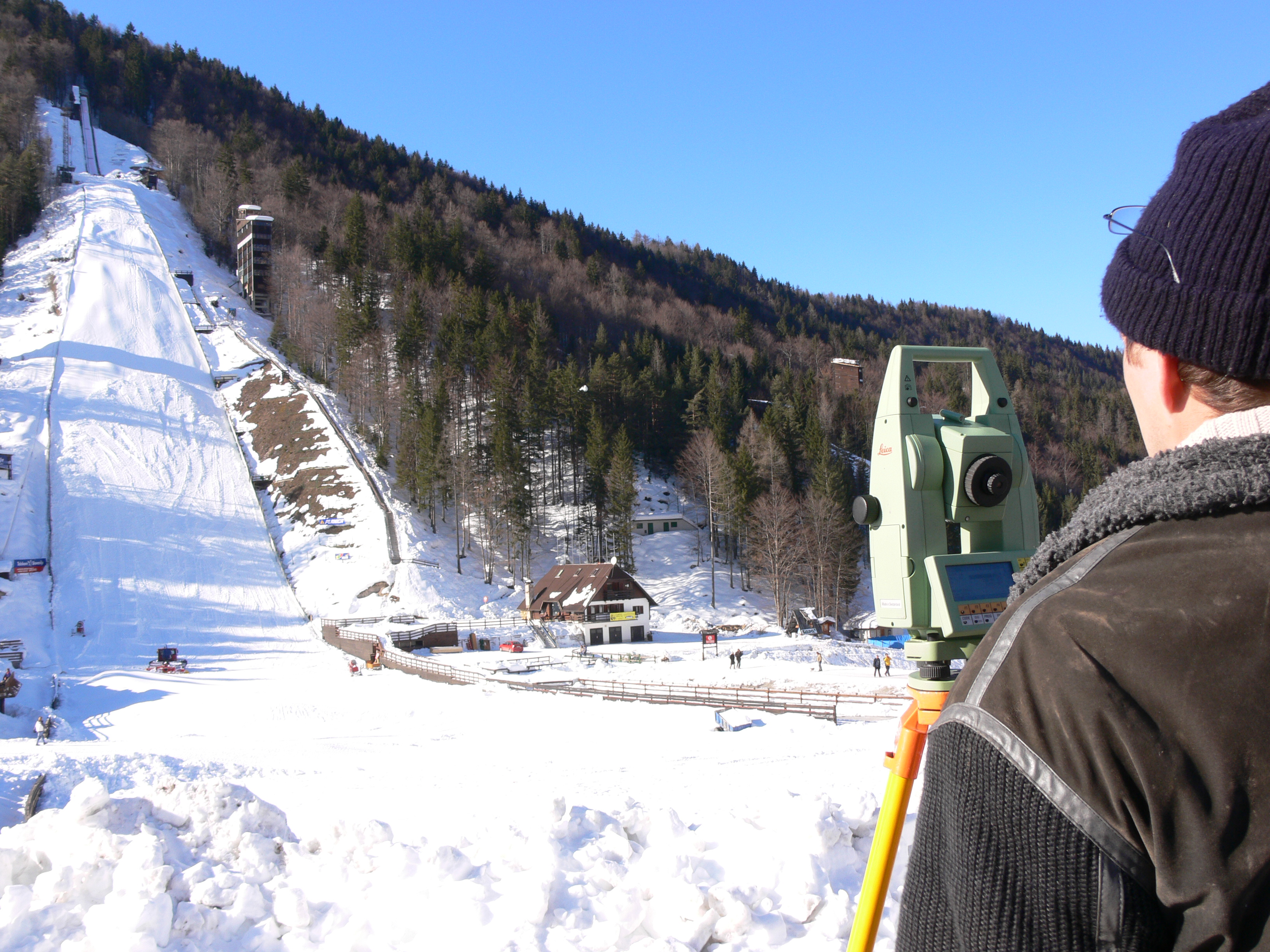 Measuring the biggest ski-jumping hill in Slovenia